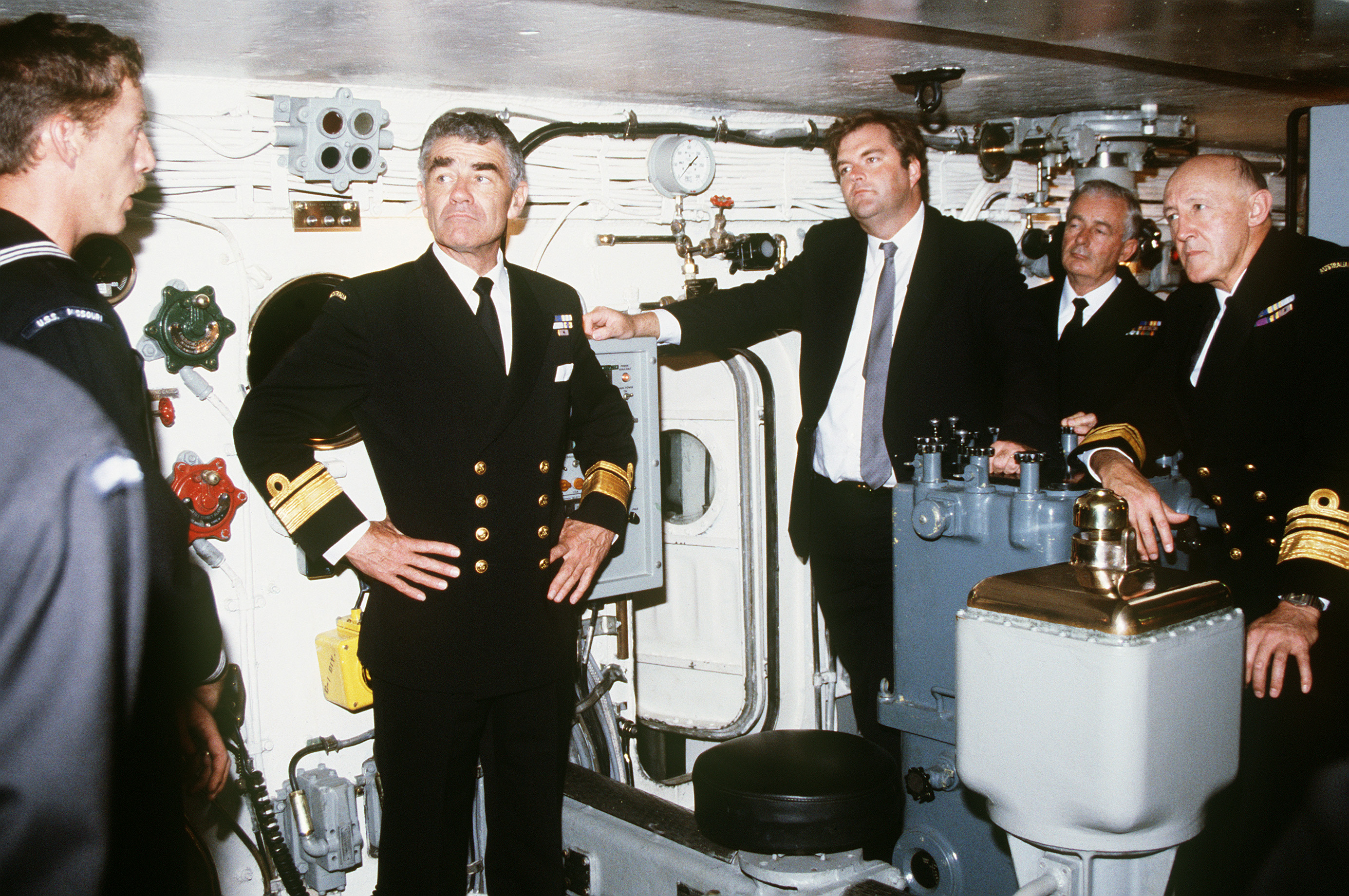 Gunner's Mate First Class V.W. Allen (far left) explains operations inside the No. 1 gun turret aboard the battleship USS MISSOURI (BB 63) to Rear Admiral (RADM) D.J. Martin, Royal Australian Navy (left center); Kim Beazley, Australian Minister of Defence, (right center); and Vice Admiral (VADM) M.W. Hudson, Royal Australian Navy (far right). The ship is on a port visit during a cruise around the world. Location: SYDNEY, NEW SOUTH WALES AUSTRALIA (AUS)